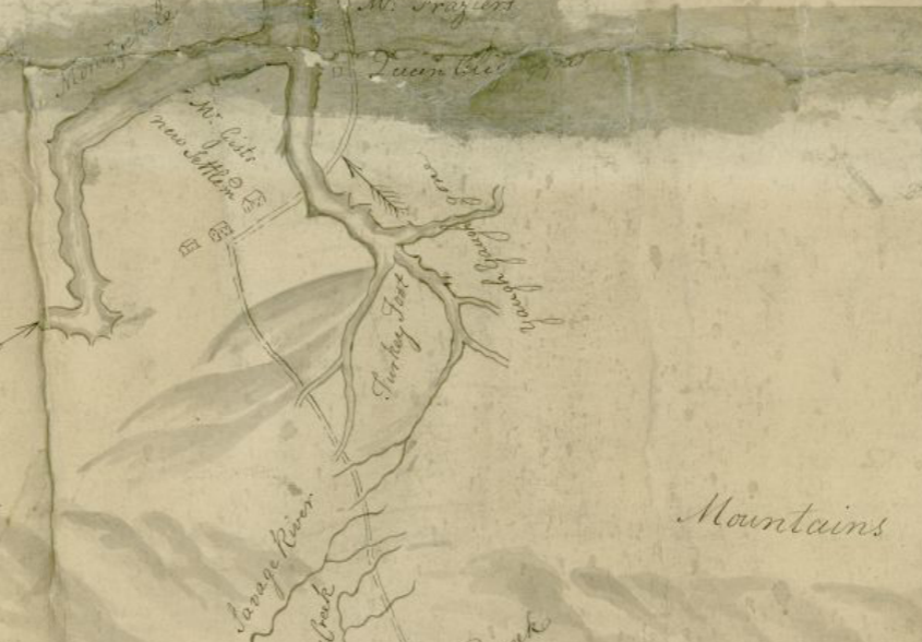 A handrawn map of the Somerset region by George Washington from (DARMAP0214)